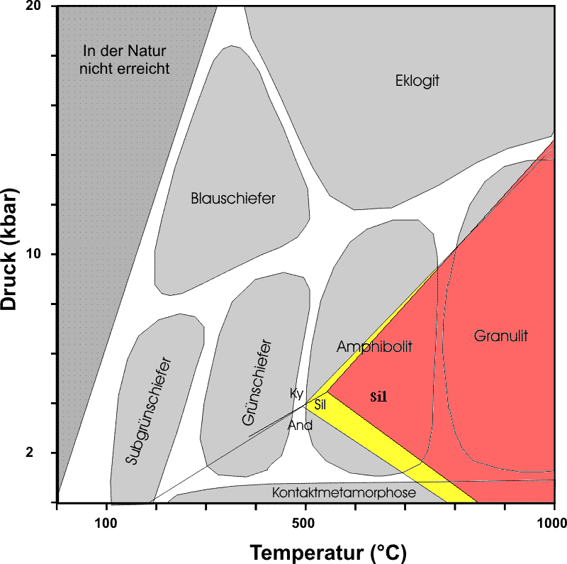 Diagram showing the stability field of the mineral sillimanite